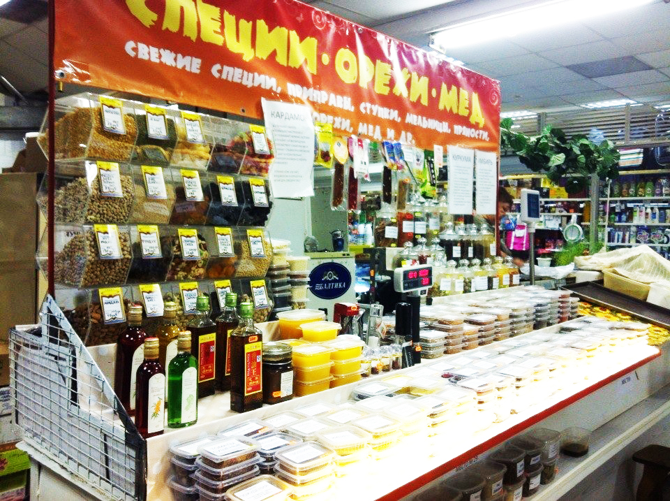 At SPICE SHOP COMPANY лавка специй, пряностей, приправ, орехов, меда (Санкт-Петербург пр. Ветеранов, д.53/56